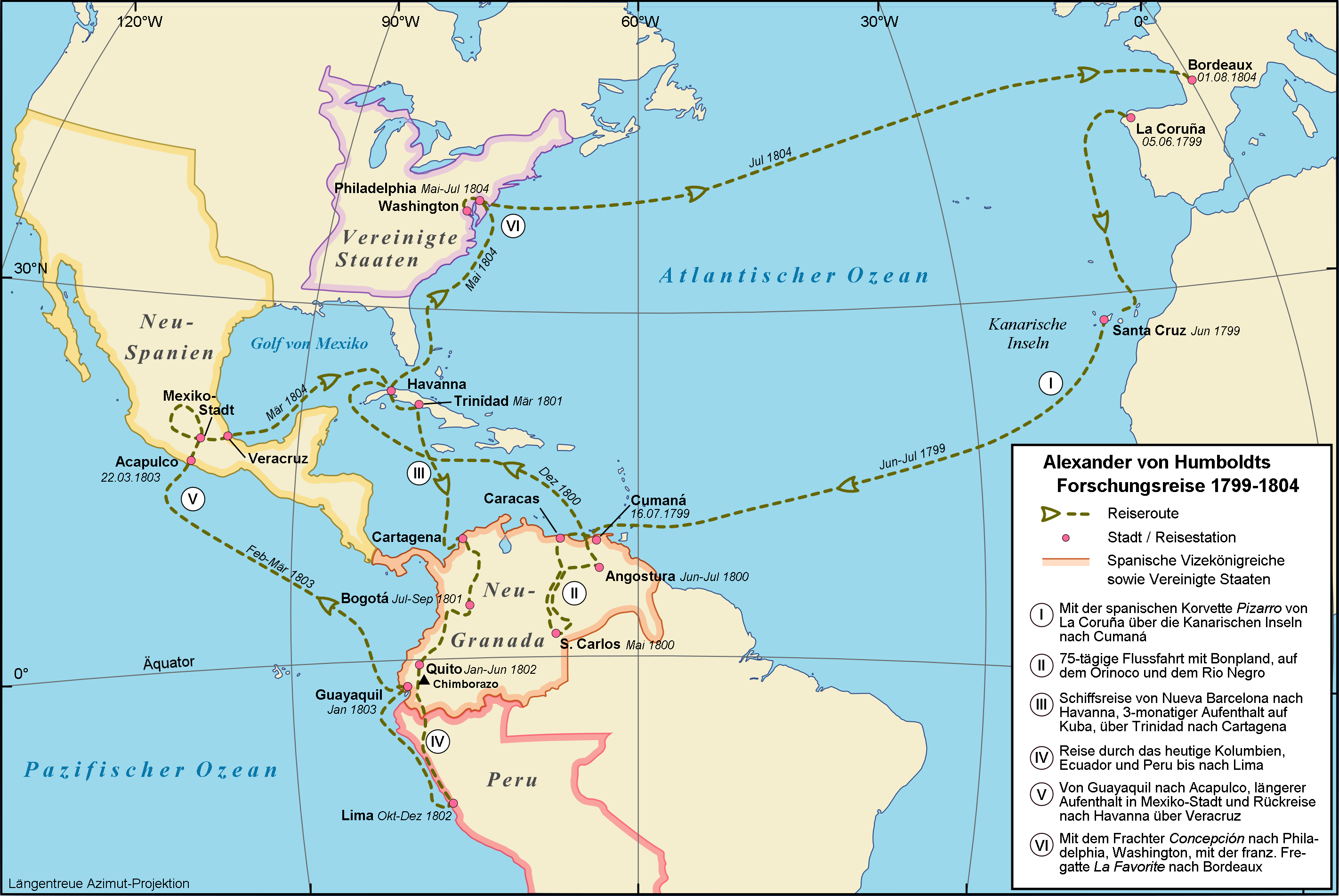 Alexander von Humboldt's American expedition from 1799-1804